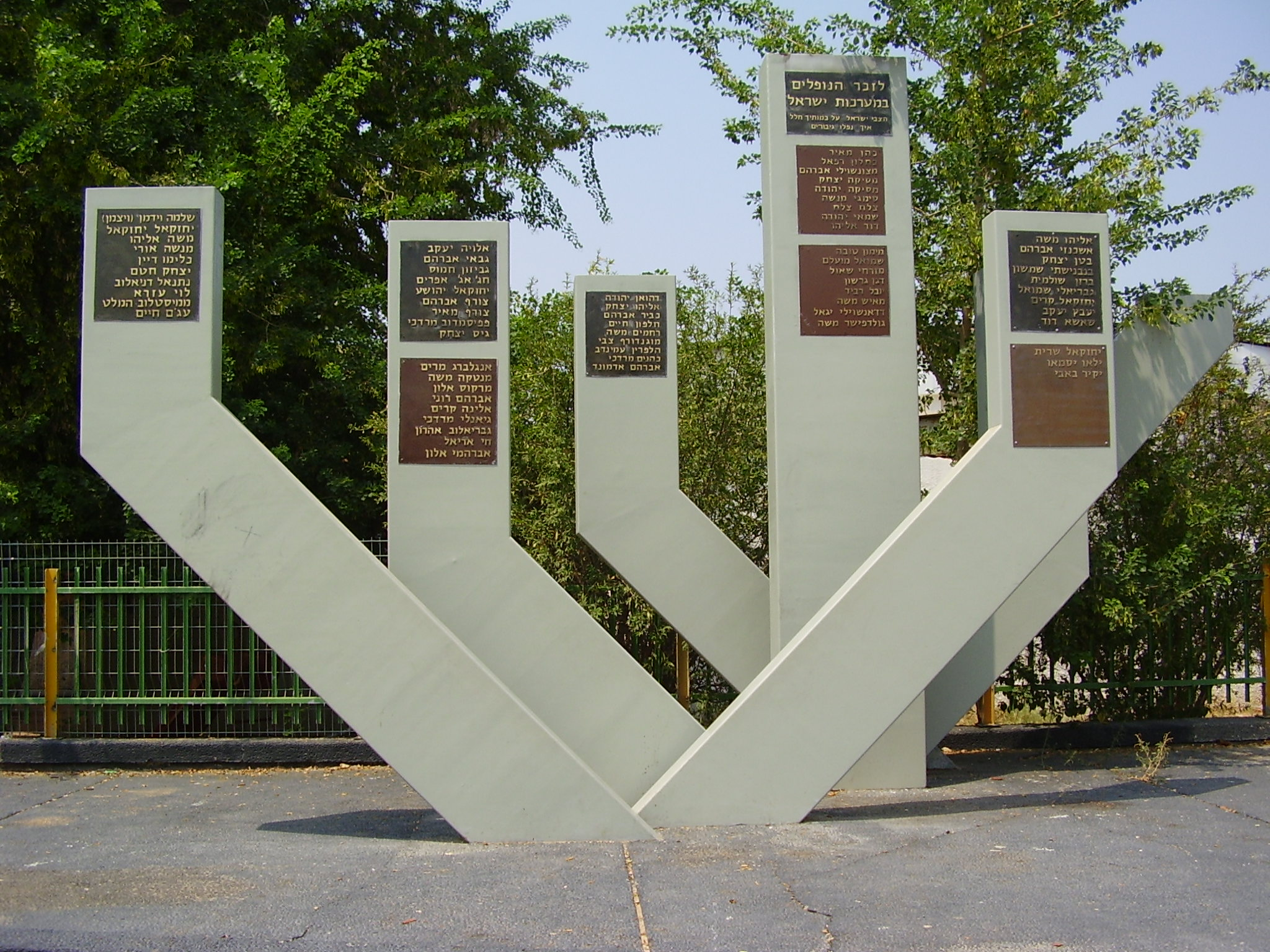 War Memorial in Or-Yehuda, Israel אנדרטה באור יהודה לנופלים במערכות ישראל